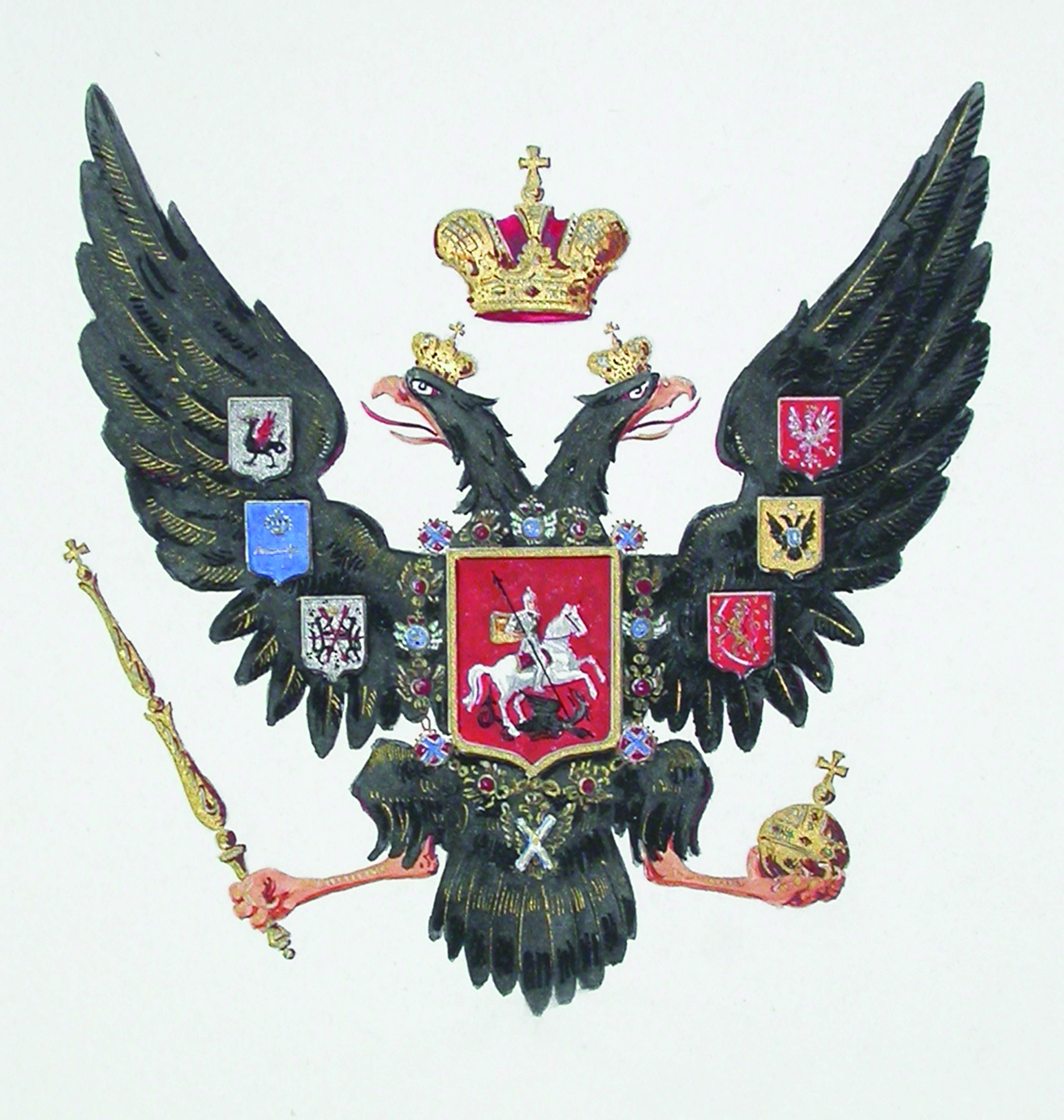 Coat of Arms of the Russian Empire, variant. 1825—1855.